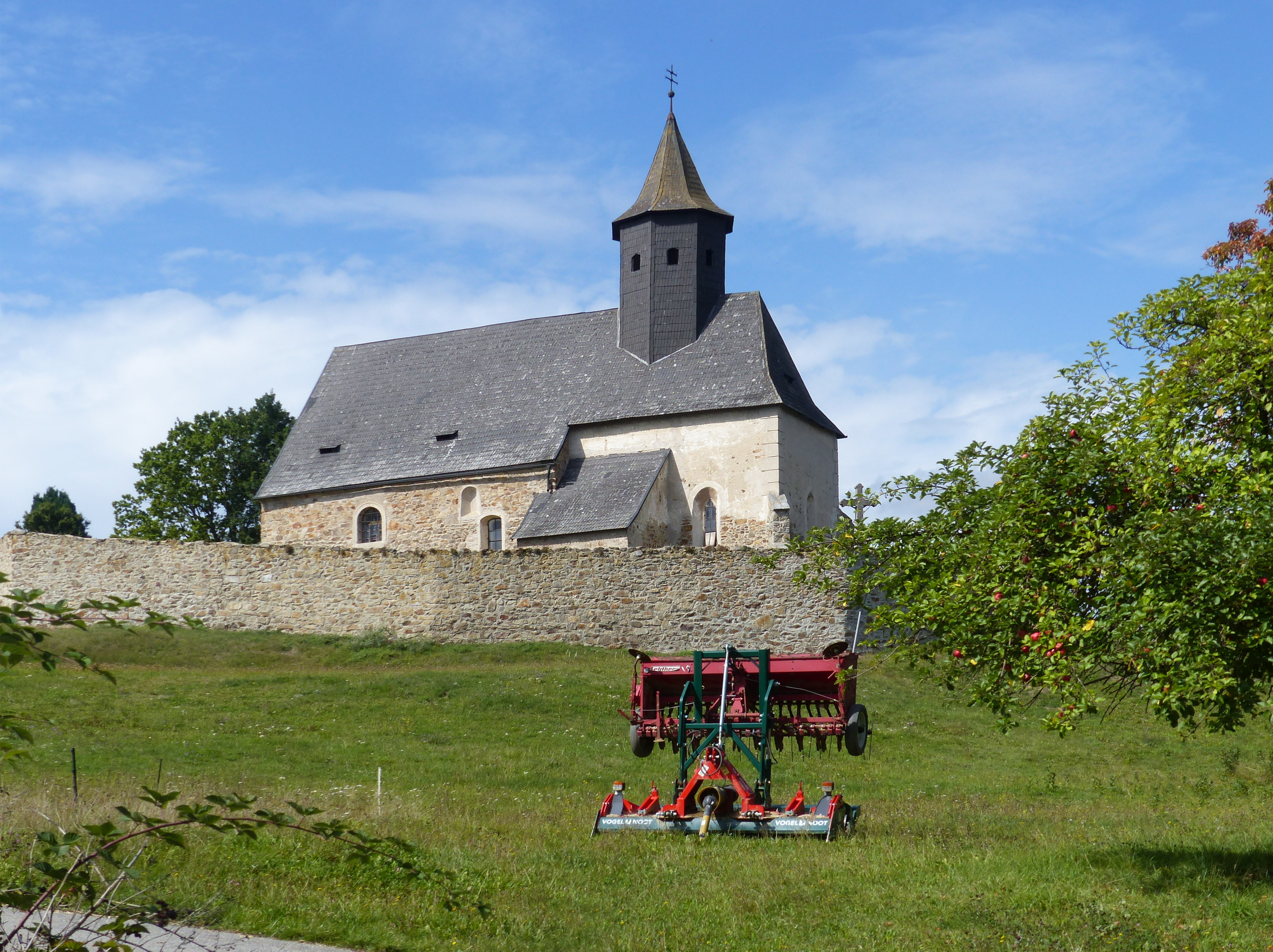 Kleinzwettl ( Gastern / Lower Austria ). Saint James the Greater church - Fortified church ( 13th century )